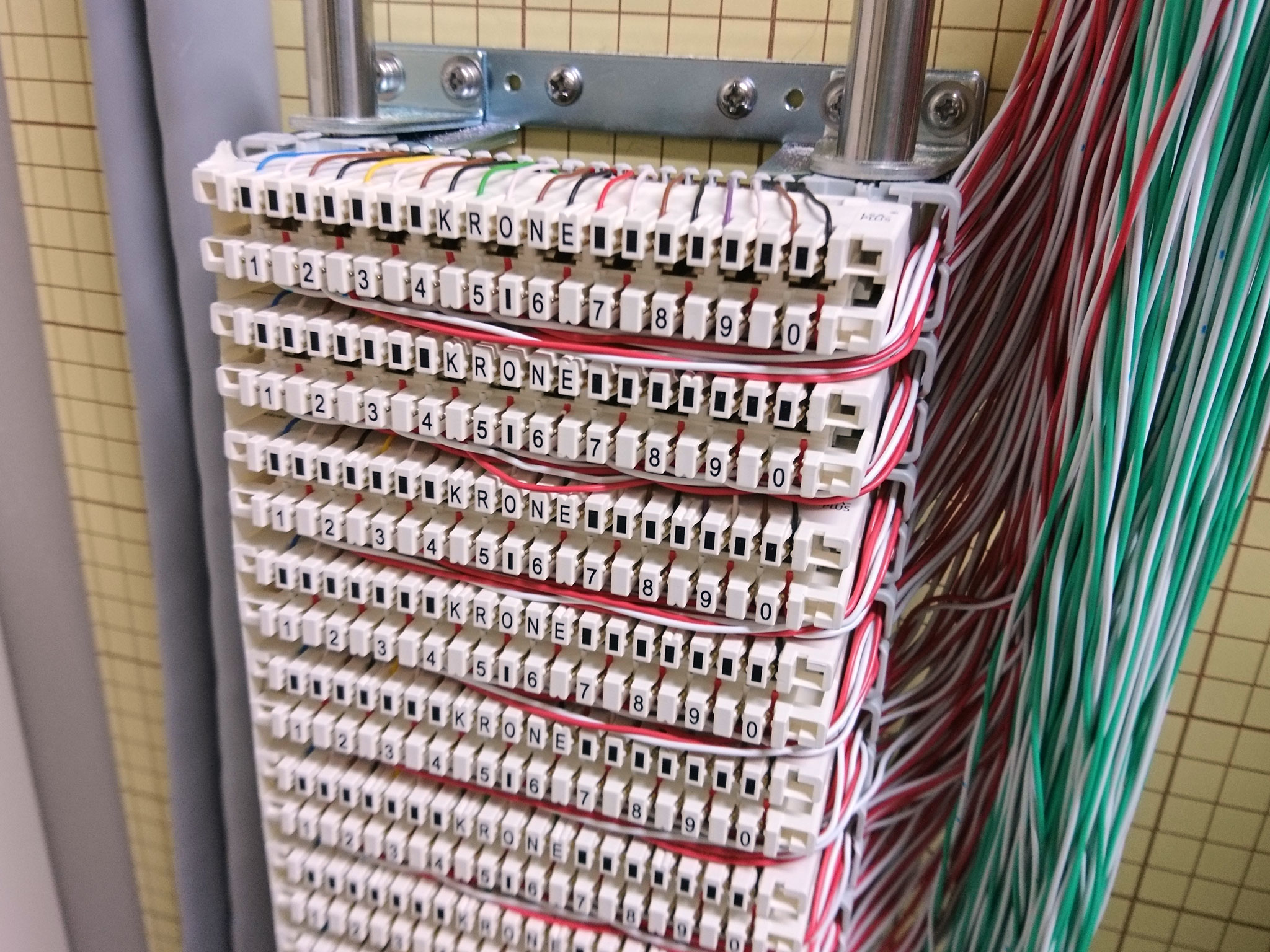 Distribution frame built with Krone LSA-Plus.